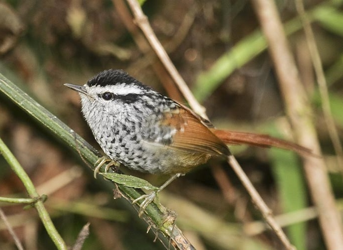 Drymophila genei at Monte Verde (Camanducaia, Minas Gerais, Brazil)